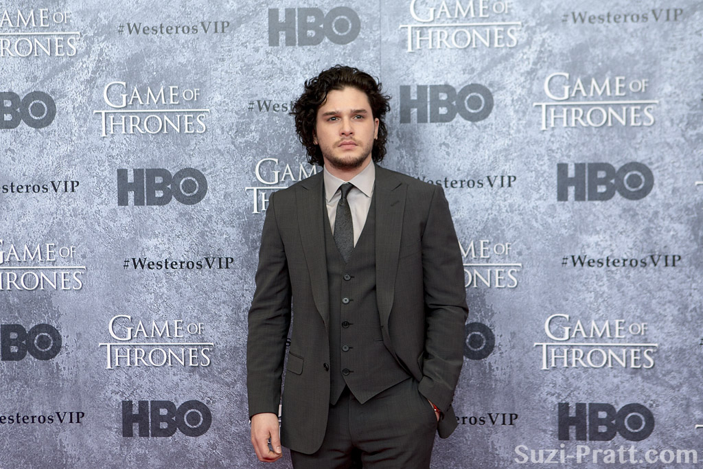 Photos by